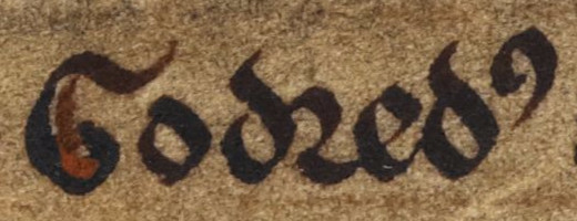 An excerpt from folio 42v of British Library Cotton MS Julius A VII (the Chronicle of Mann). A transcription of this excerpt appears on page 86 of: Munch, PA; Goss, A, eds. (1874). Chronica Regvm Manniæ et Insvlarvm: The Chronicle of Man and the Sudreys. Vol. 1. Douglas, IM: Manx Society. The excerpt reads: "Godredus". The excerpt refers to Guðrøðr Rǫgnvaldsson, King of the Isles (died 1231).